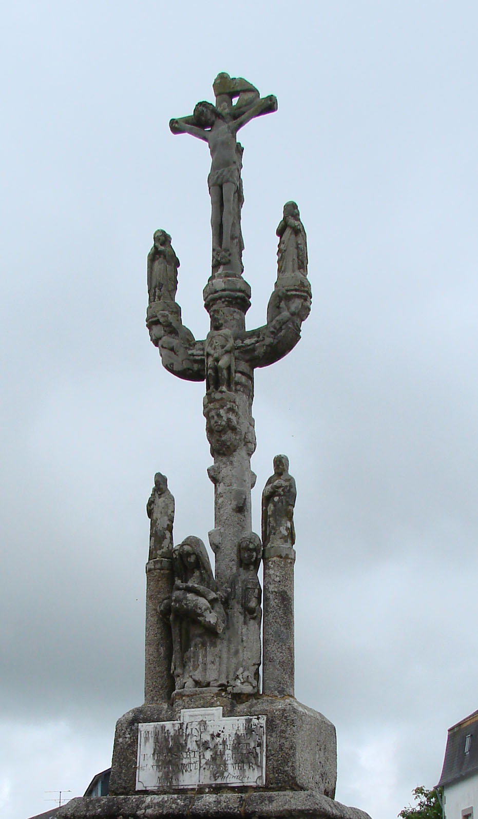 Calvary in Nizon (Finisterre), France